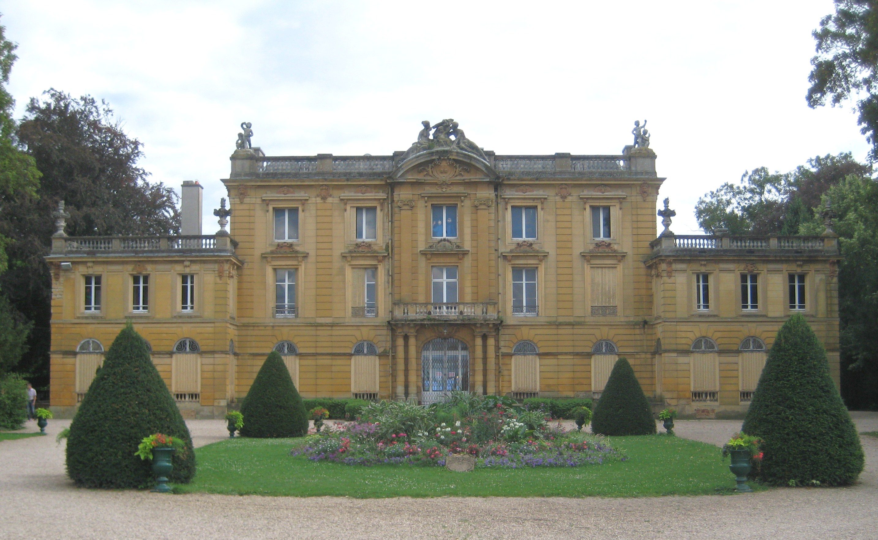 Description chateau Moncel Jarny chateau Moncel Jarny